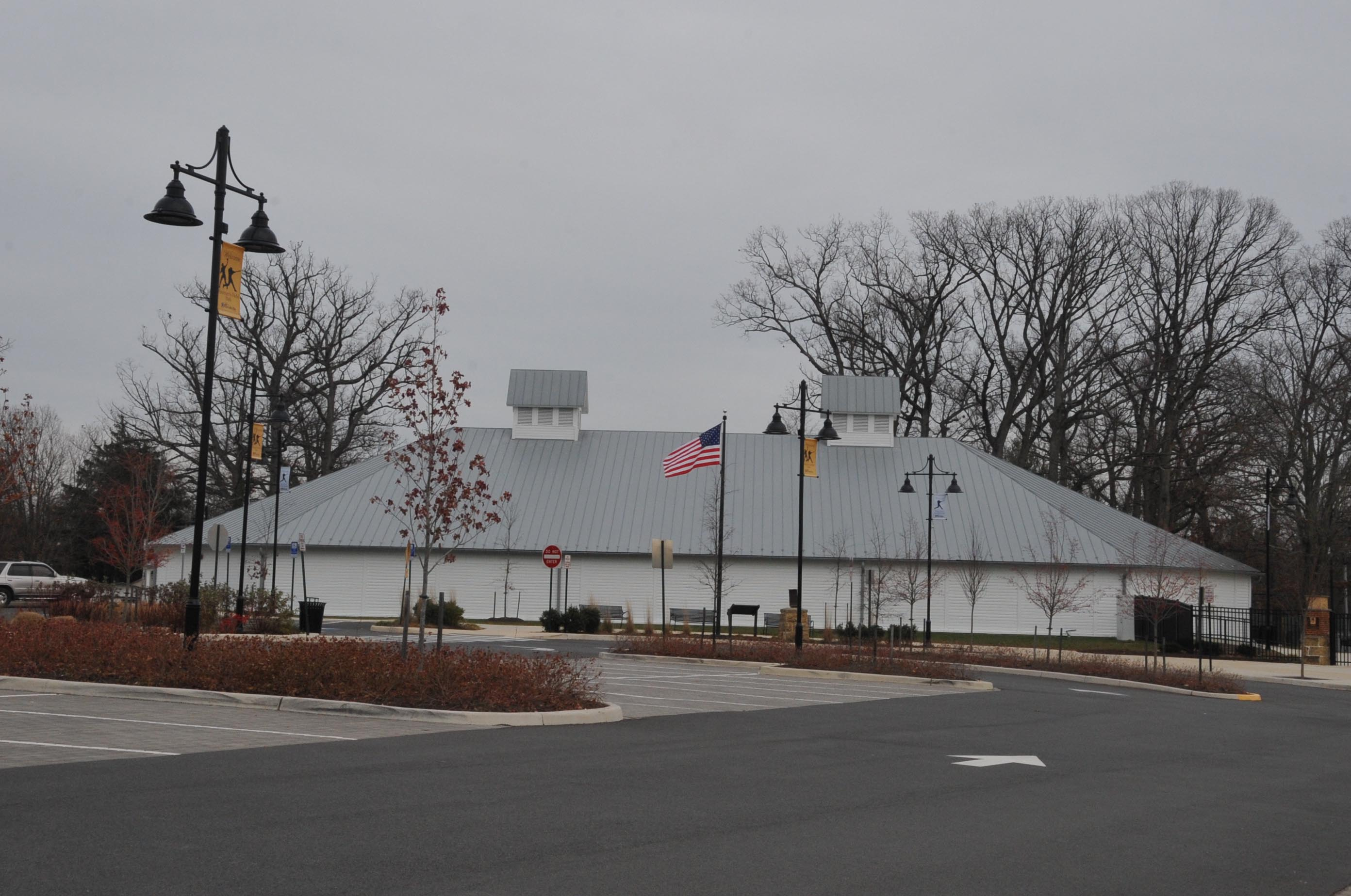 HISTORIC MEETING SITE AND PICNIC GROUND; IT INCLUDES THE 8-SIDED BUSH MEETING TABERNACLE USED TO CONDUCT MEETINGS OF THE PROHIBITIOIN AND EVANGELICAN ASSOCIATION OF LOUDOUN COUNTY. IT WAS CONVERETED INTO A SKATING RINK UNTIL ITS CLOSURE IN 2009